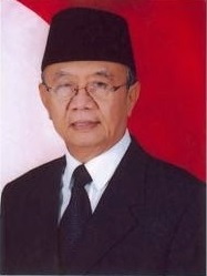 Salahuddin Wahid as a vice presidential candidate in the 2004 Indonesian presidential election